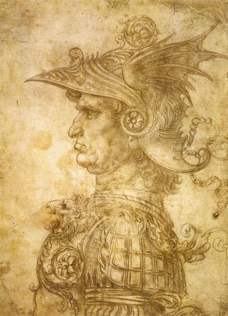 LEONARDO da Vinci Profile of a warrior in helmet Silverpoint on prepared paper, 285 x 207 mm British Museum, London